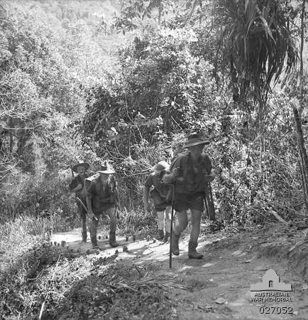 Australian troops from the 2/1st, 2/2nd and 2/3rd Battalions, 16th Brigade, cross the Owen Stanley Ranges.